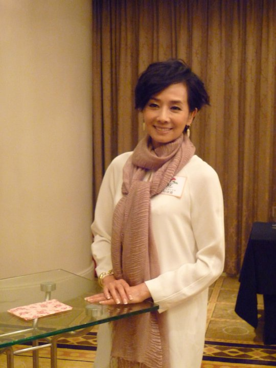 TERESA MO